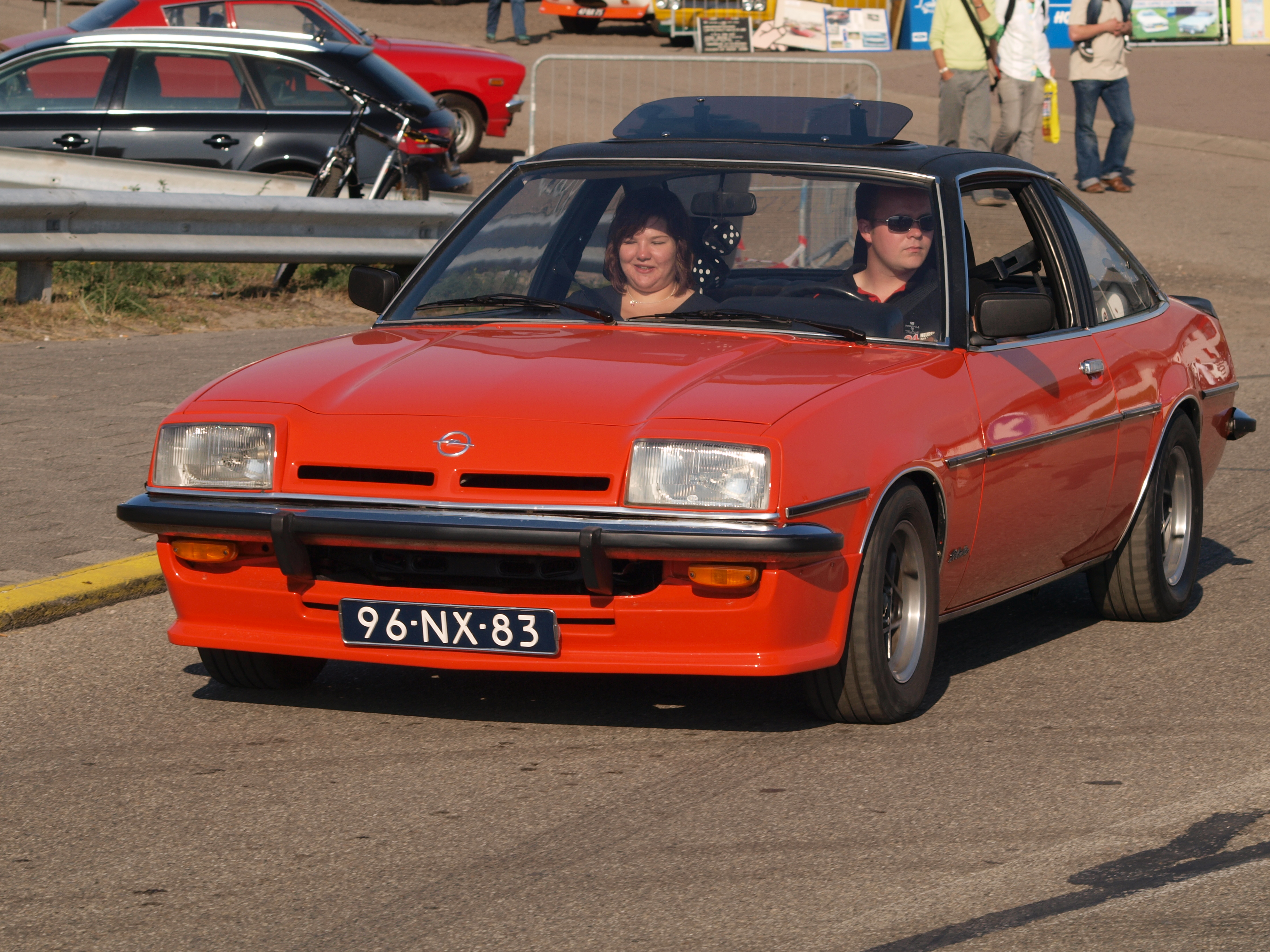 Photographed at the Nationaal Oldtimer Festival Zandvoort 2009, The Netherlands. OLYMPUS DIGITAL CAMERA